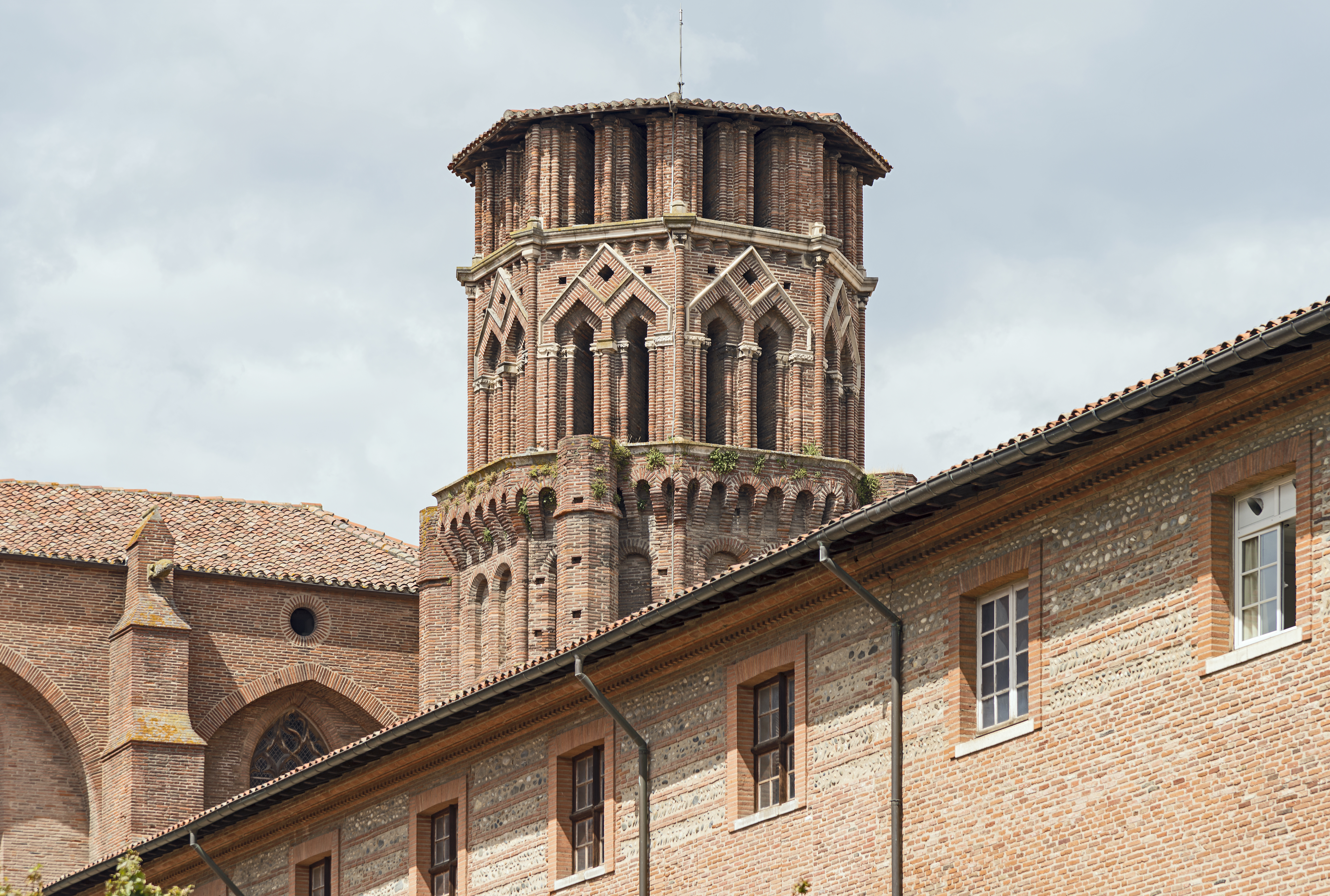 Musée des Augustins in Toulouse. Bell tower.